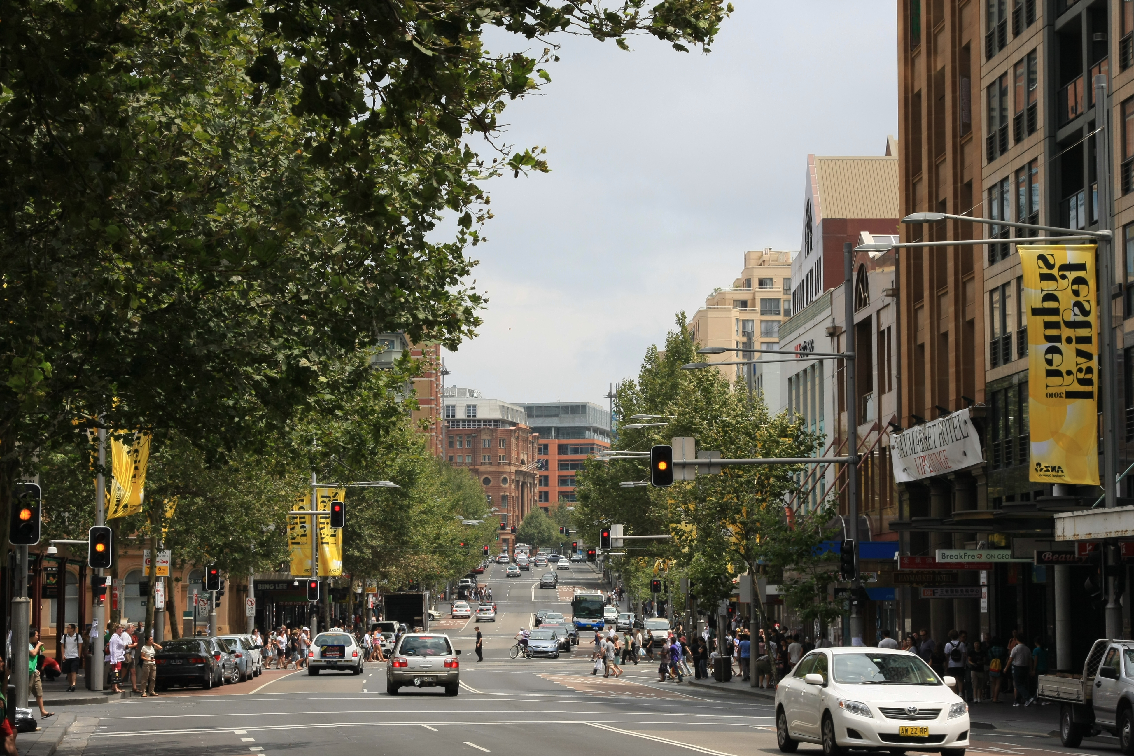 George Street Sydney with the town hall on the right